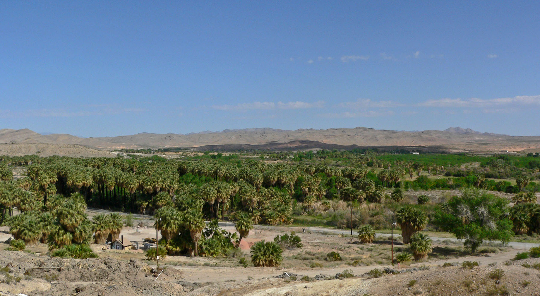 Moapa Valley National Wildlife Refuge, Moapa Valley, southern Nevada